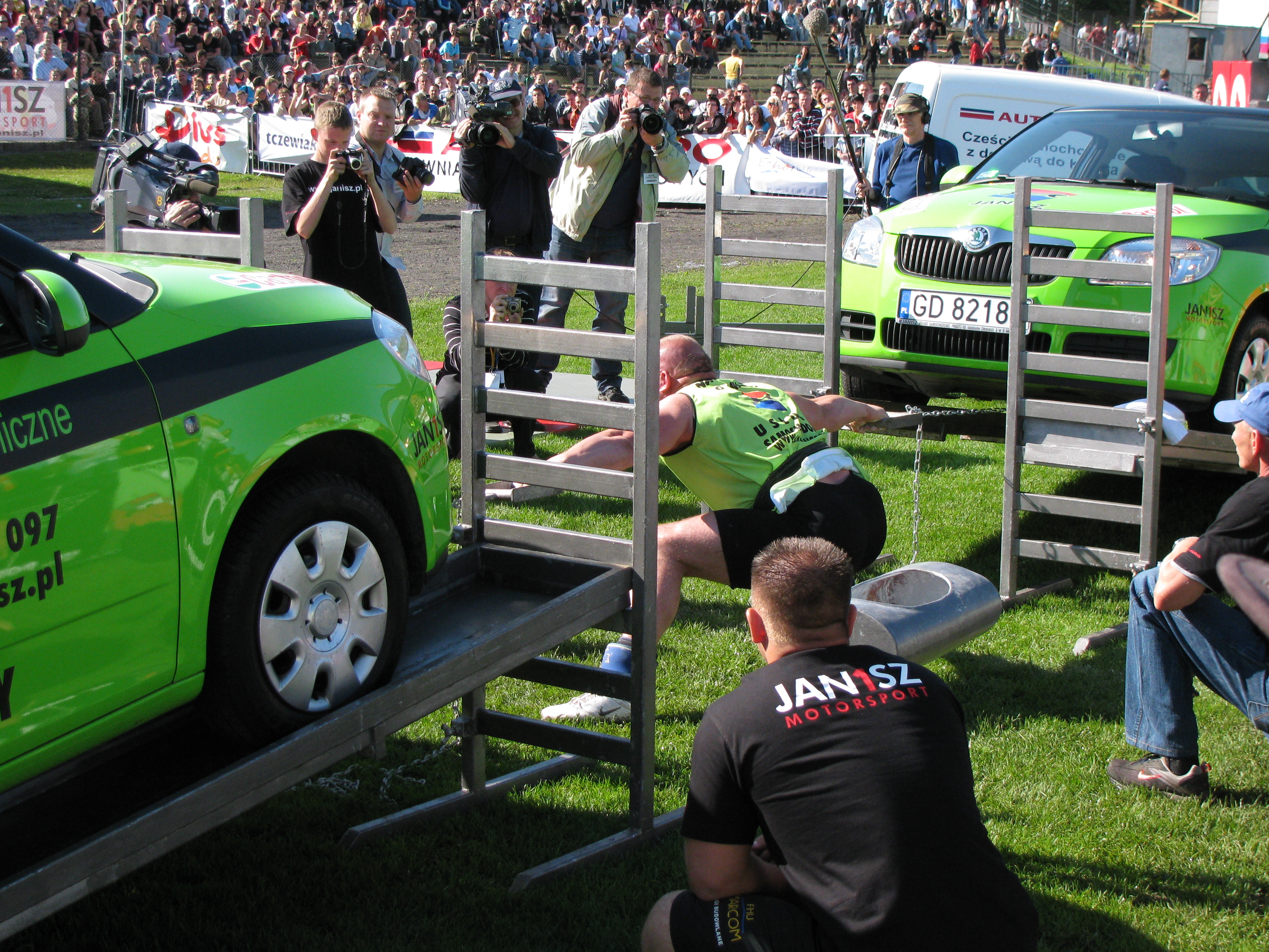 Strongman exercise: Hercules hold